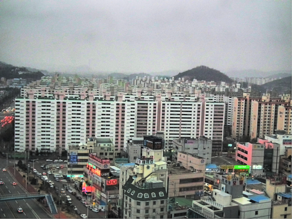 Suncheon